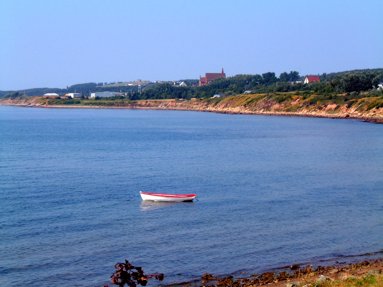 This picture was taken by Lee Martin of the Port Hood area on August 5th 2001. This file is not licensed